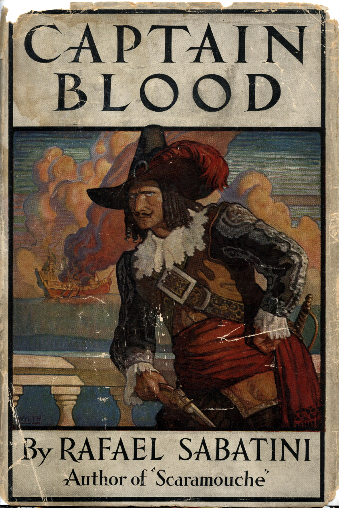 1922 edition of Captain Blood